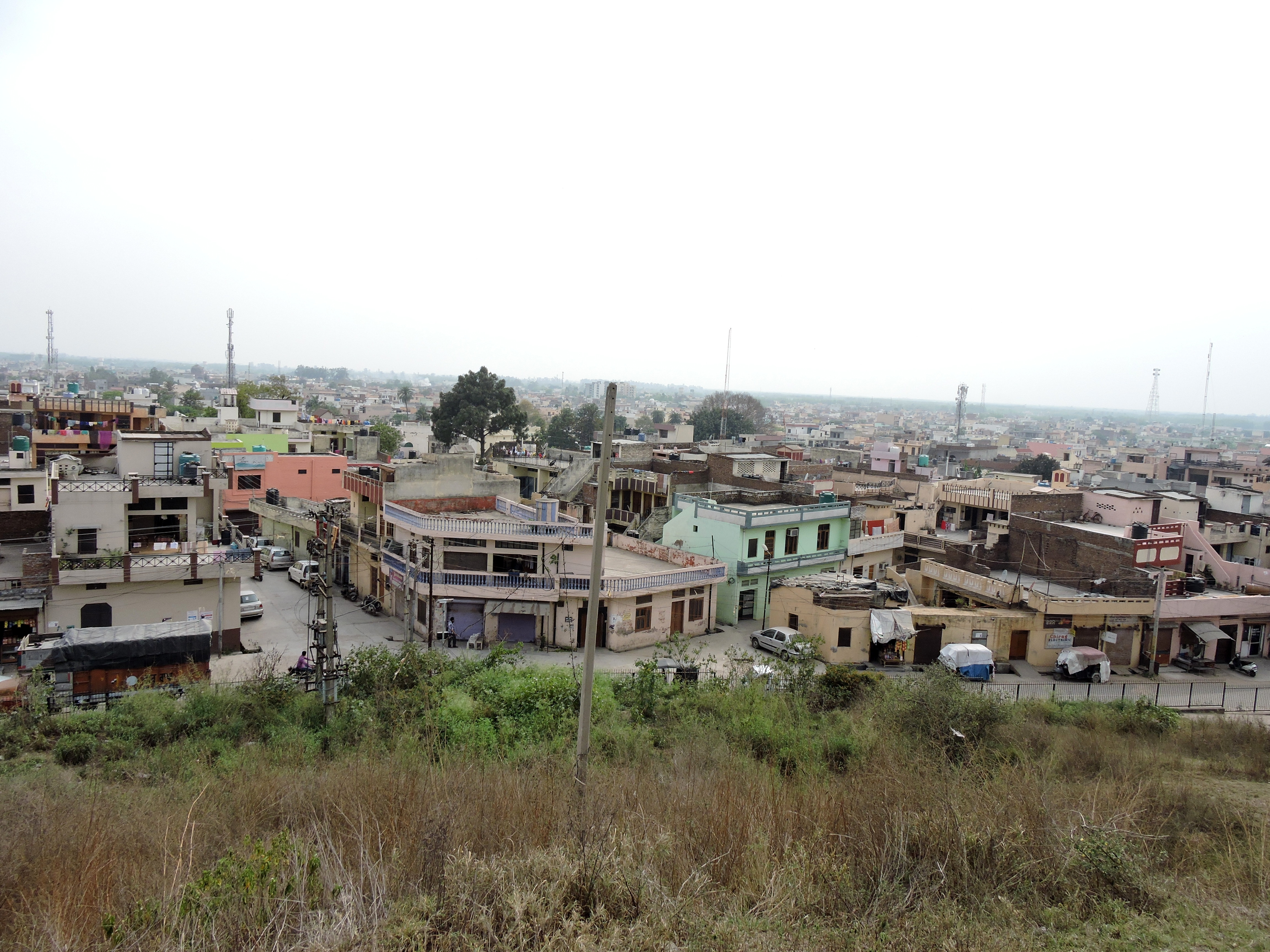 Rupnagar city, Punjab, India